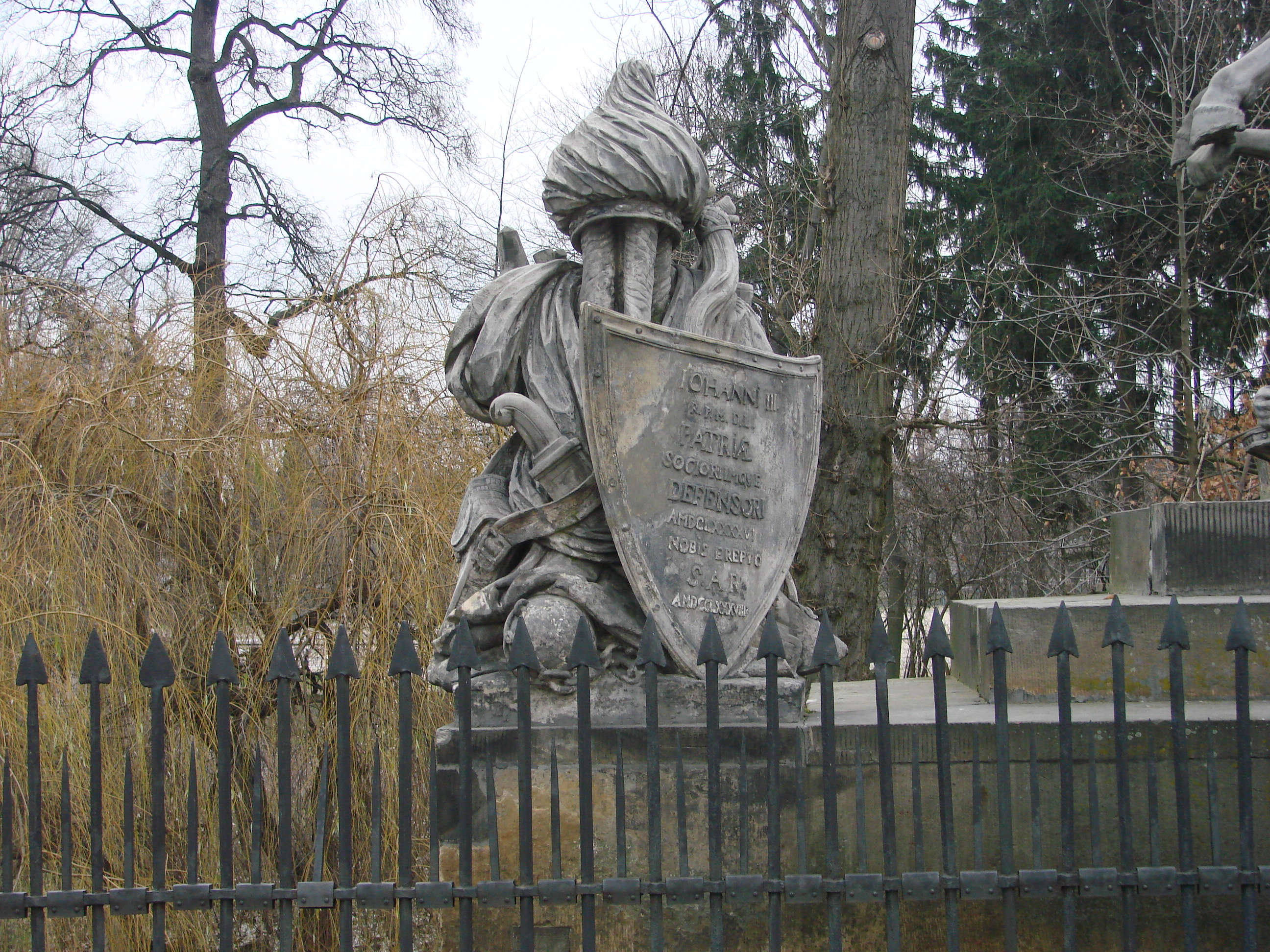 John III Sobieski Monument in Warsaw